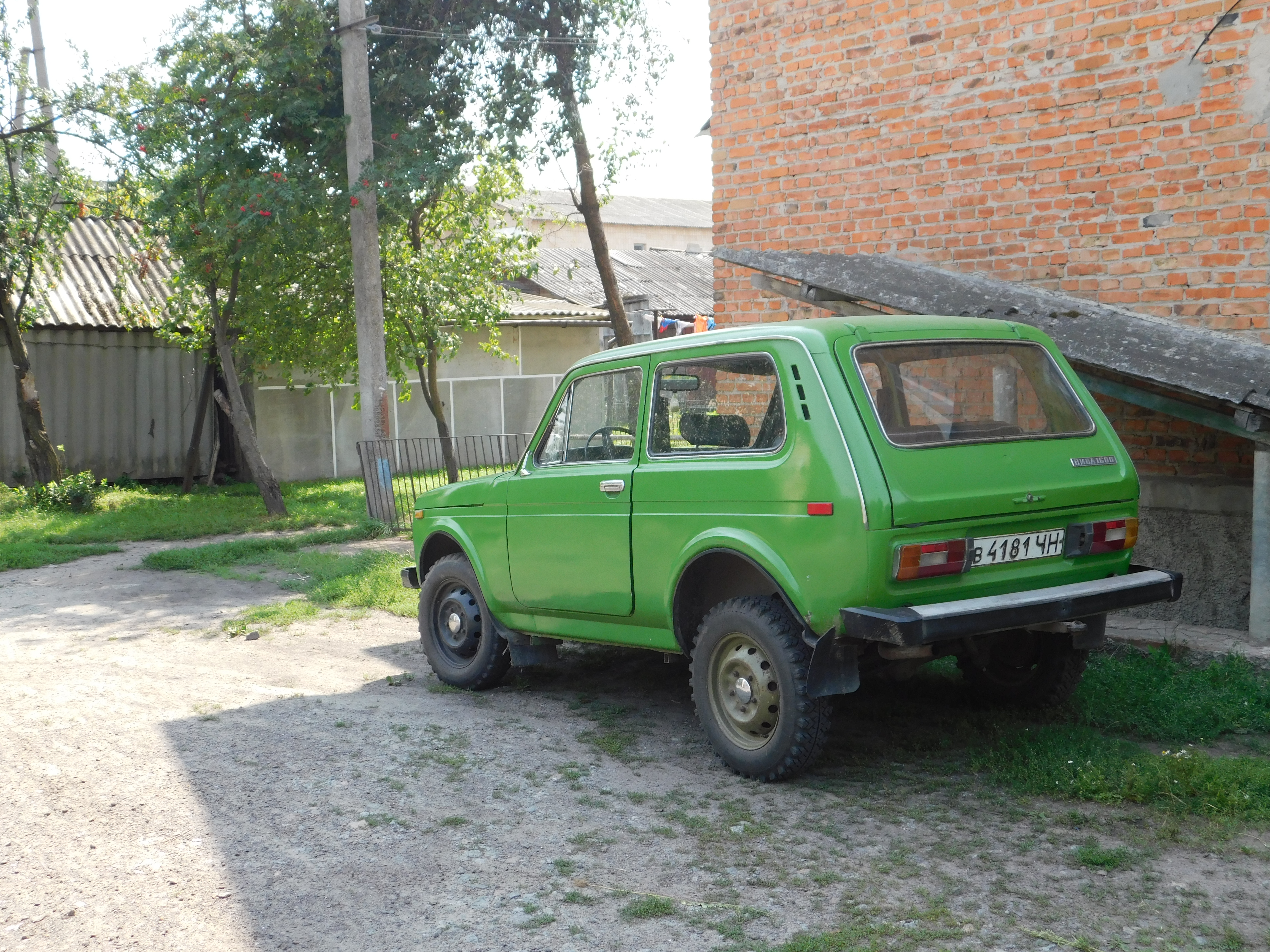 Lada Niva registered v 4181 ChN parked near apartment in Mena, Ukraine.